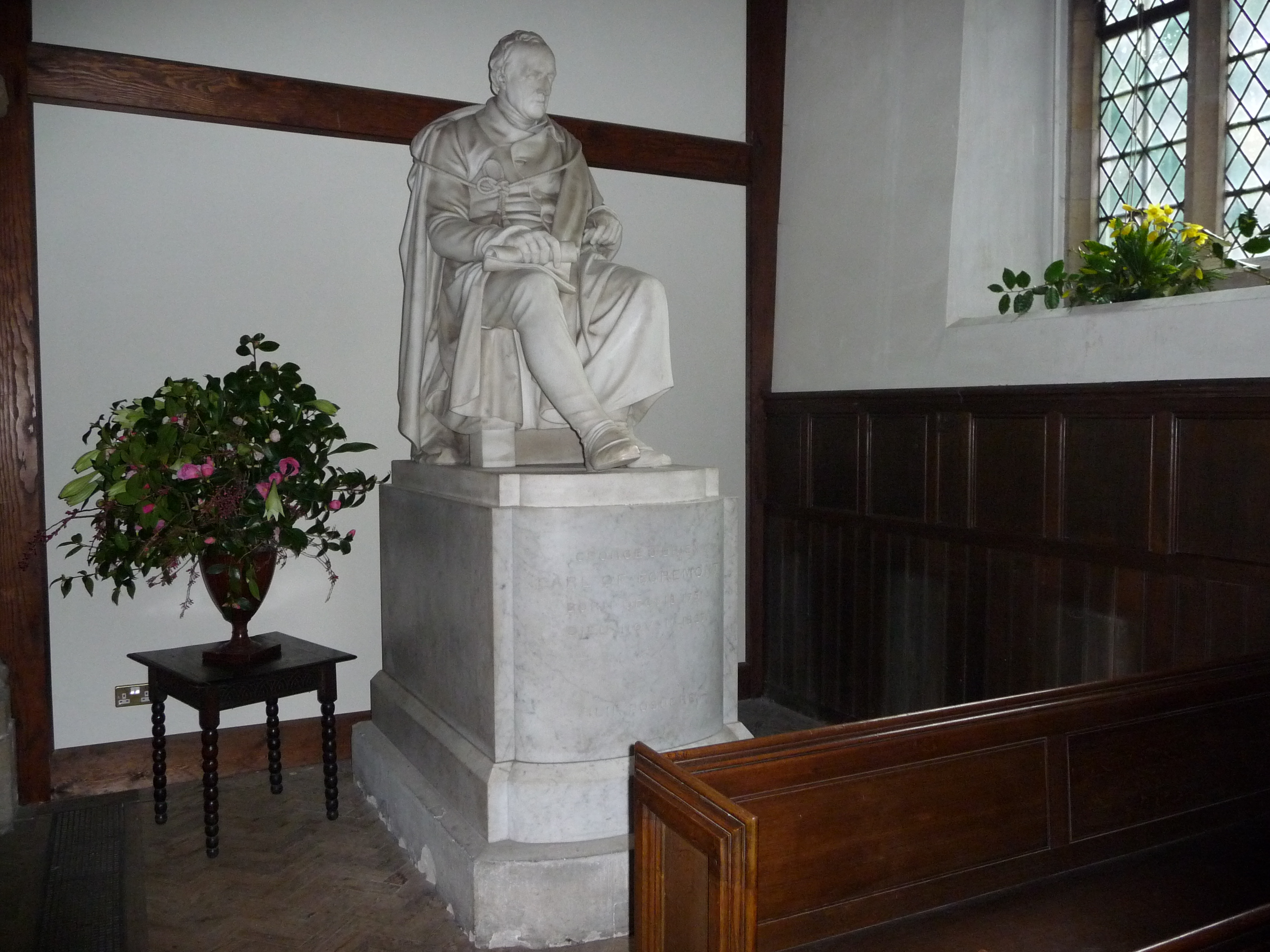 Tomb of George Wyndham, 3rd Earl of Egremont, at St Mary's Church, Petworth.